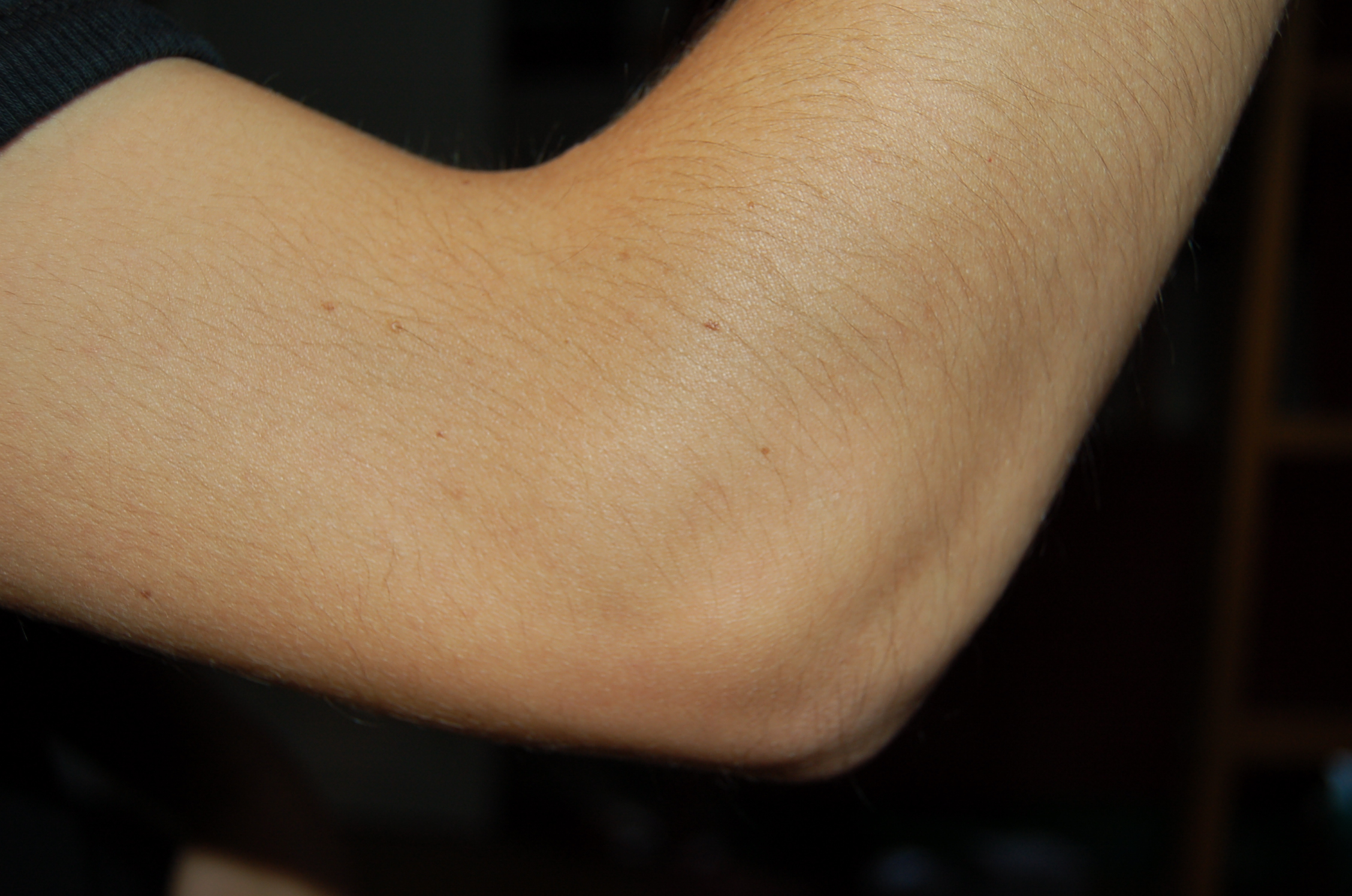 Elbow - coude